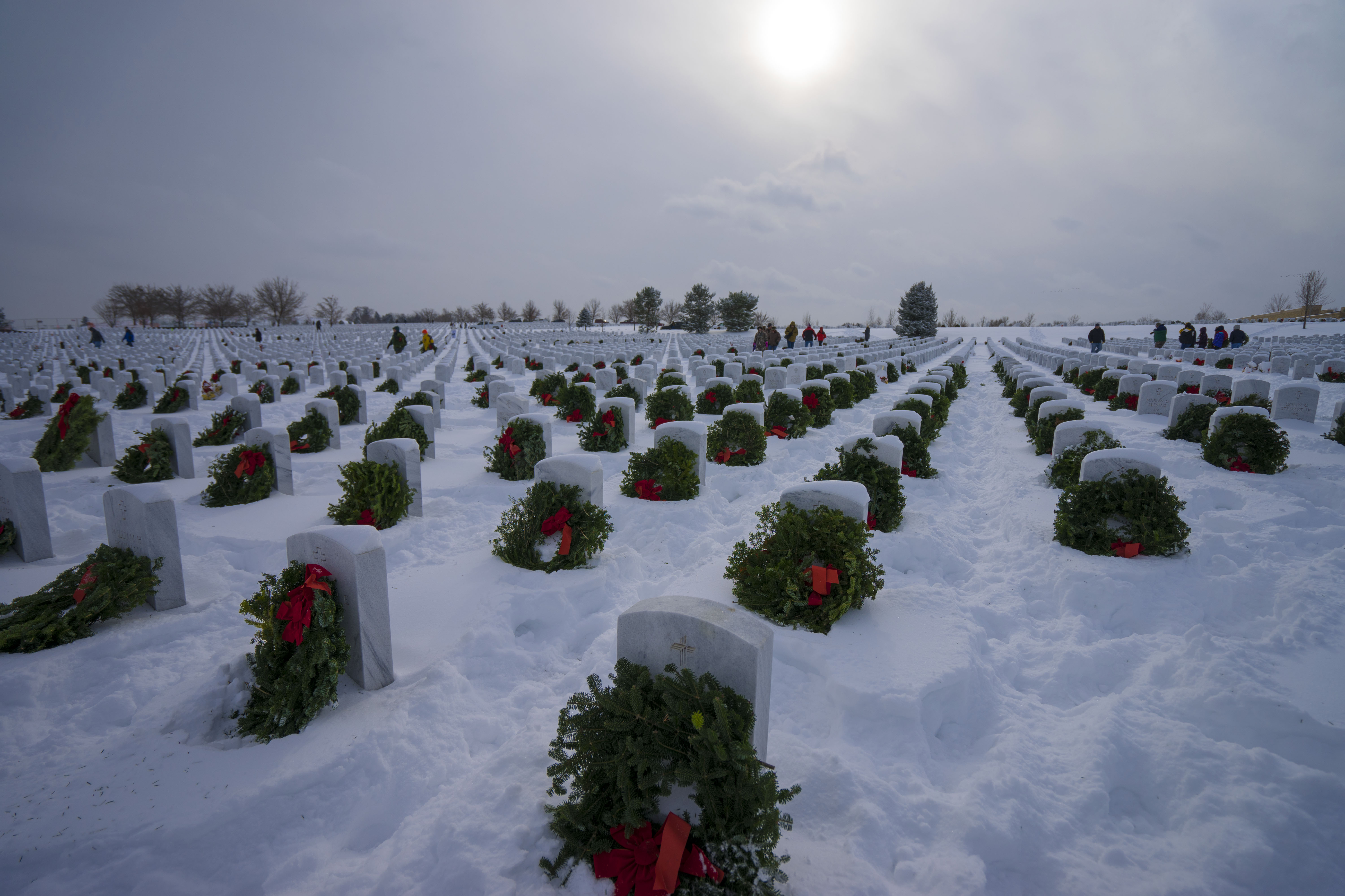 Wreaths are donated and placed on over 6000 graves. This number has been going up every year.